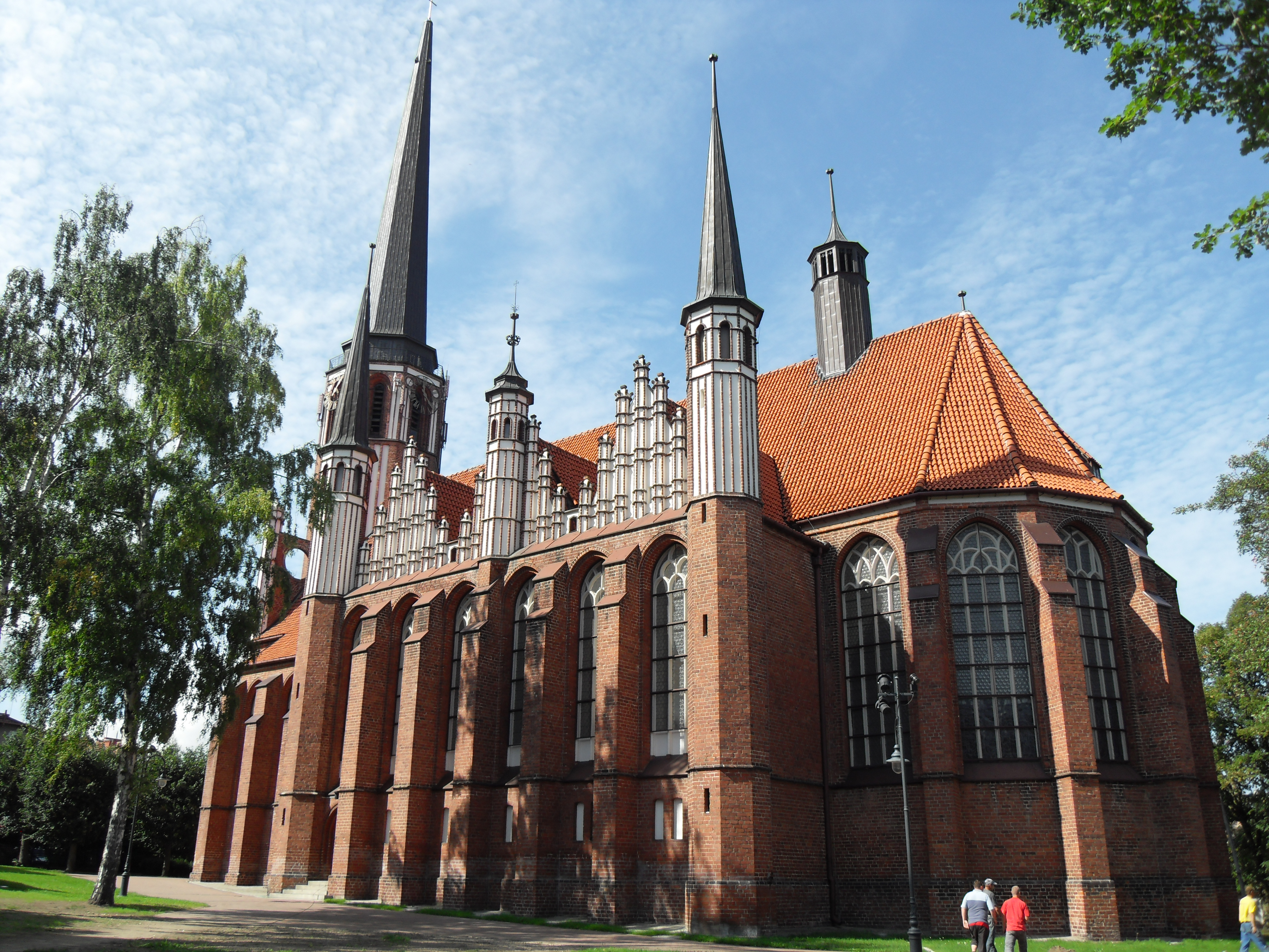 St. Mary Queen of Crown of the Kingdom of Poland in Gdańsk Oliwa